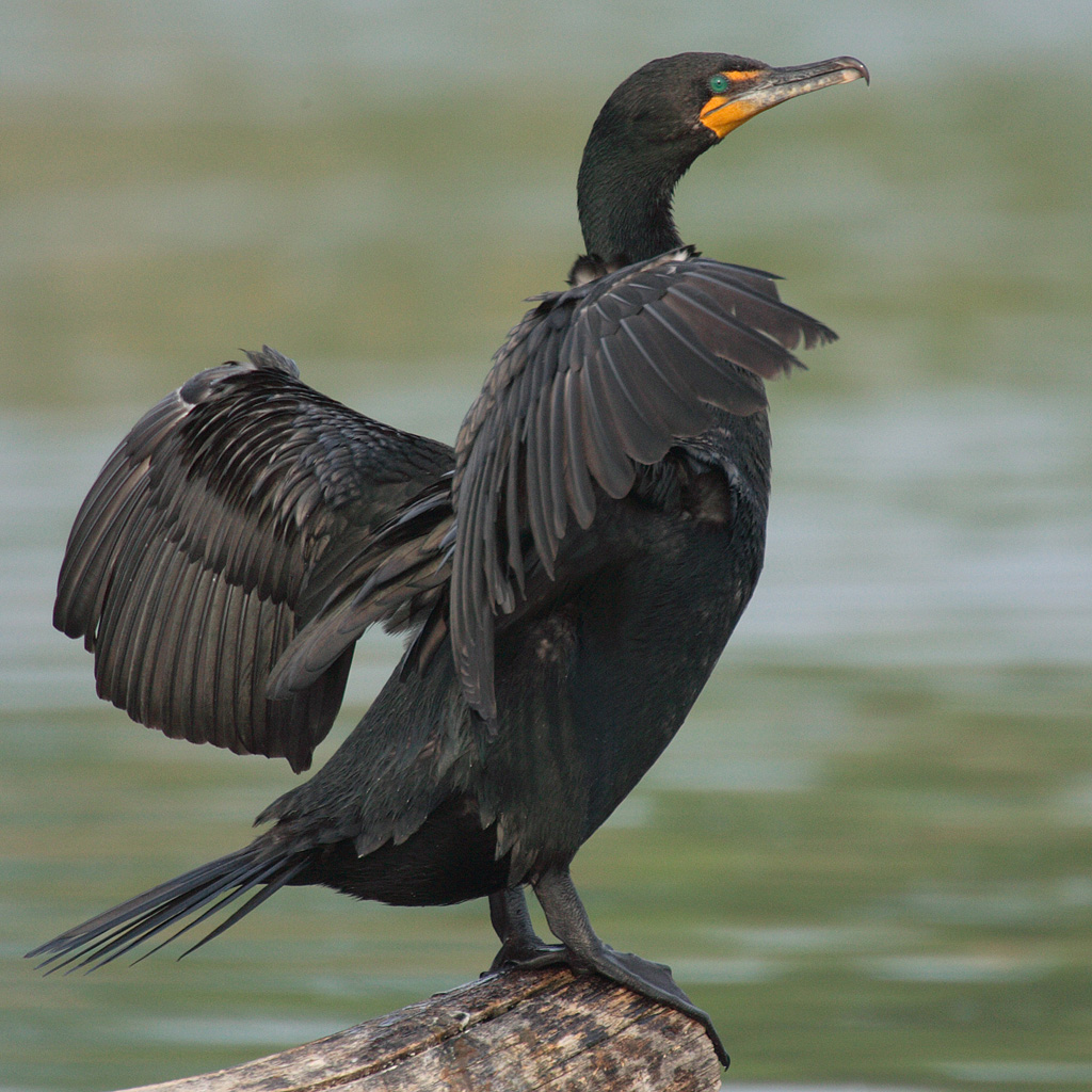 Double-crested Cormorant Phalacrocorax auritus, Humber Bay Park (Toronto, Canada).